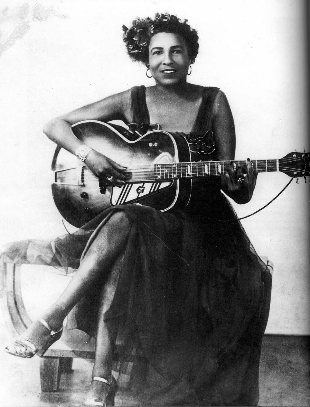 Memphis Minnie typical